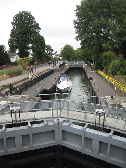 Boulter's Lock Surprisingly quiet on this occasion.